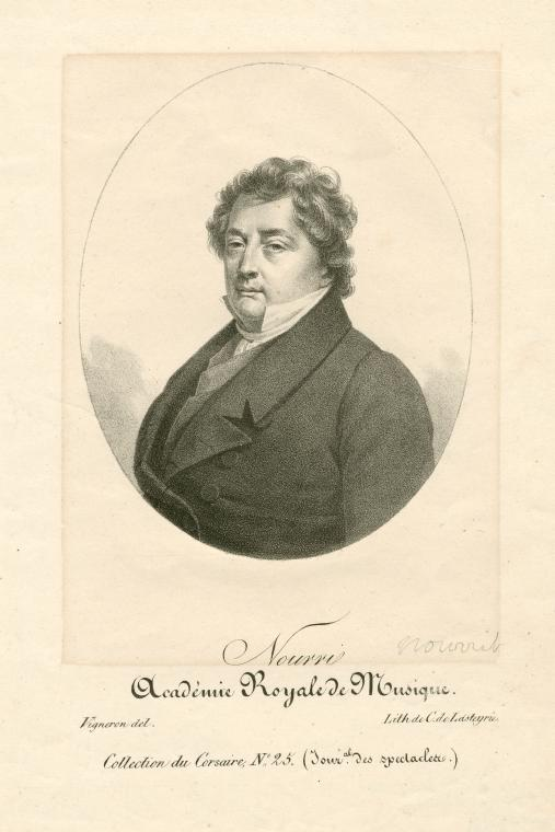 Taken from the New York Public Library digital gallery - due to its age it's in the public domain